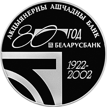 Belarus and the global community. Commemorative coins dedicated to the 80 th anniversary of the Open Joint Stock Company "Savings Bank" Belarusbank)